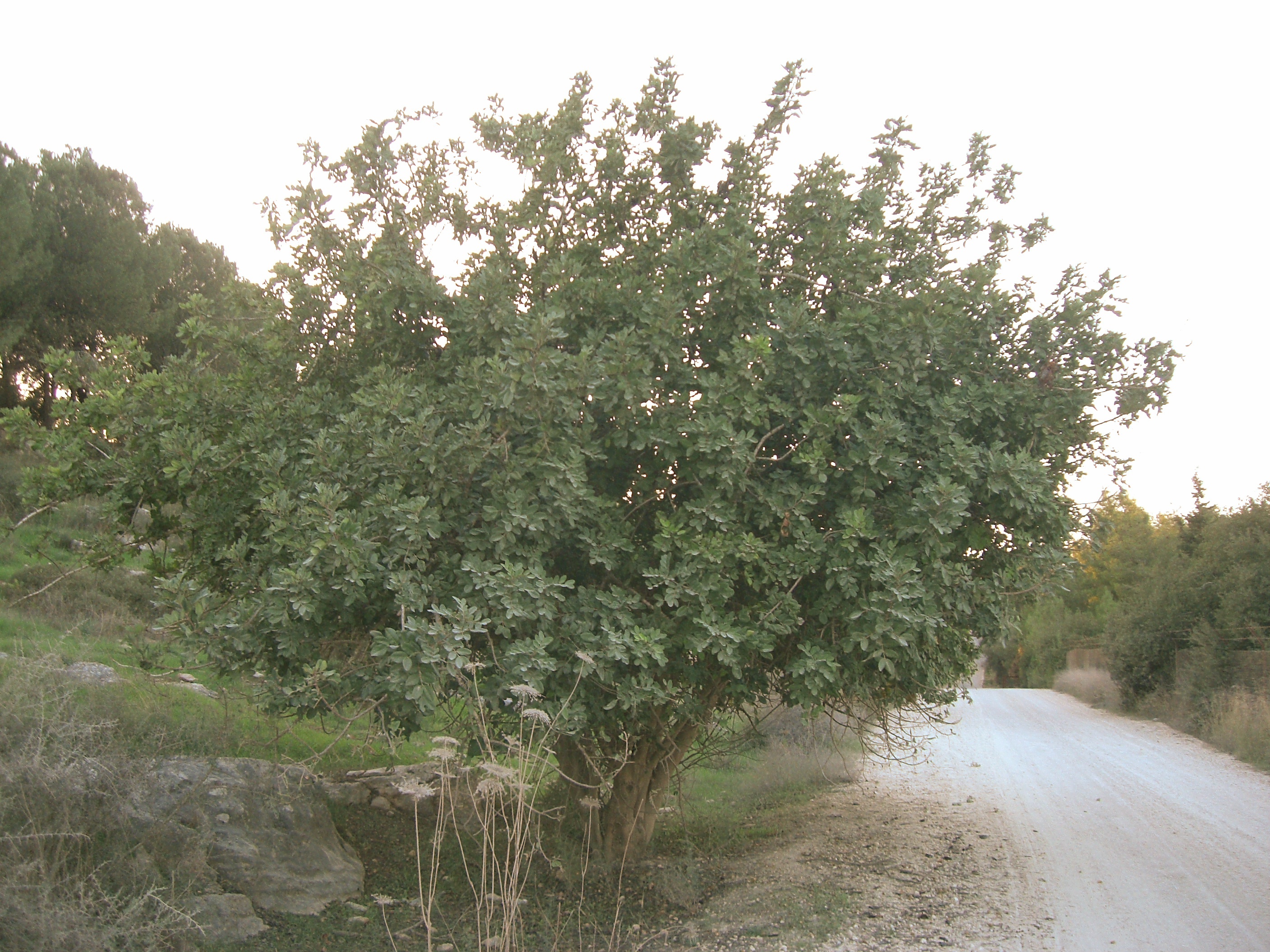 Carob tree, Ben Shemen forest, Israel, November 2006